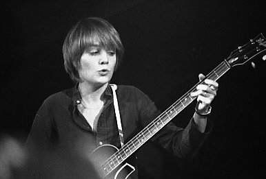 Playing at Horseshoe tavern, Toronto, May 13, 1978